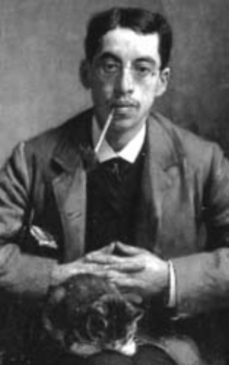 Arnold Aletrino (1858-1916), Dutch anthropologist and writer. Mirrored from original colour photograph.